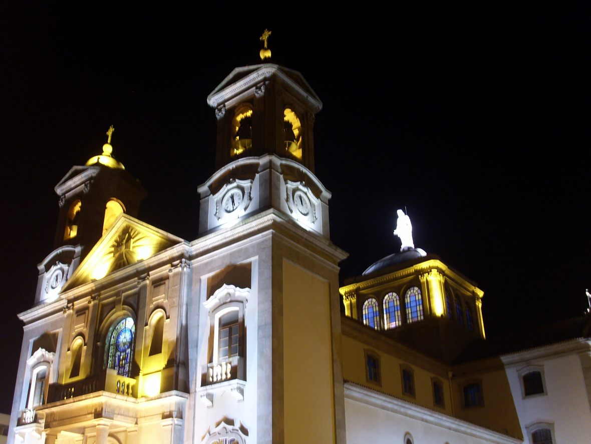 Basilica in Povoa de Varzim